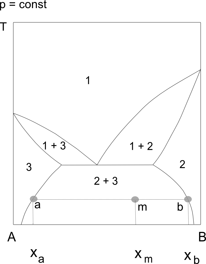 Phase diagrams/ liquid-liquid equilibrium 4